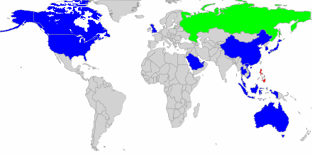 Philippine Airlines Countries Served